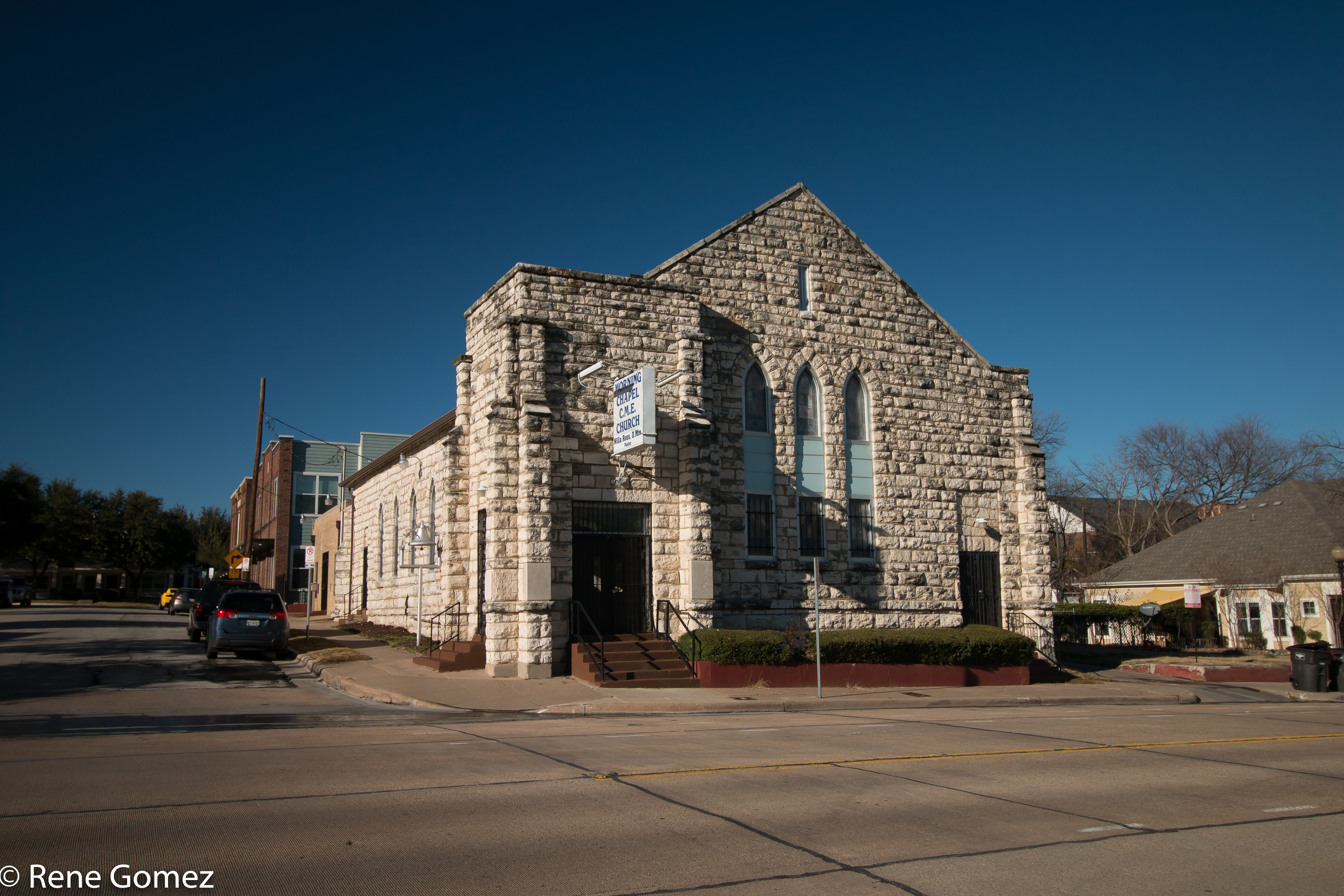 Morning Chapel Colored Methodist Episcopal Church